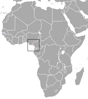 Mt. Cameroon Forest Shrew (Sylvisorex morio) range